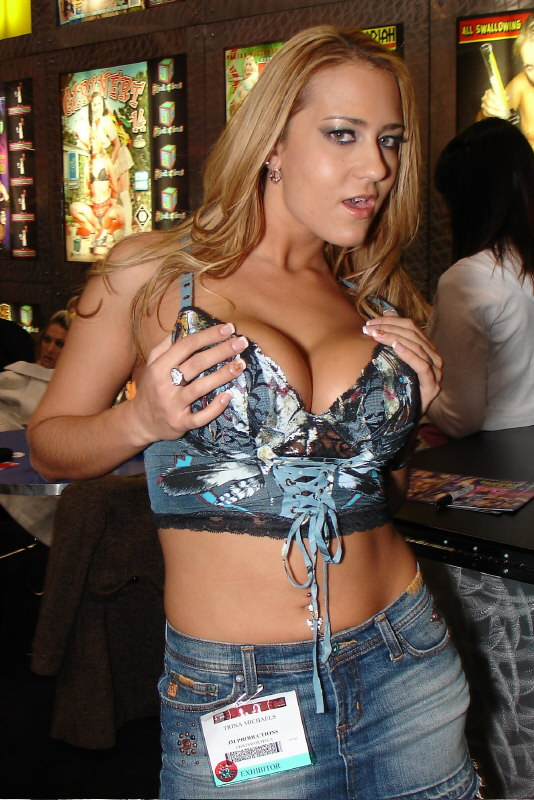 Trina Michaels.